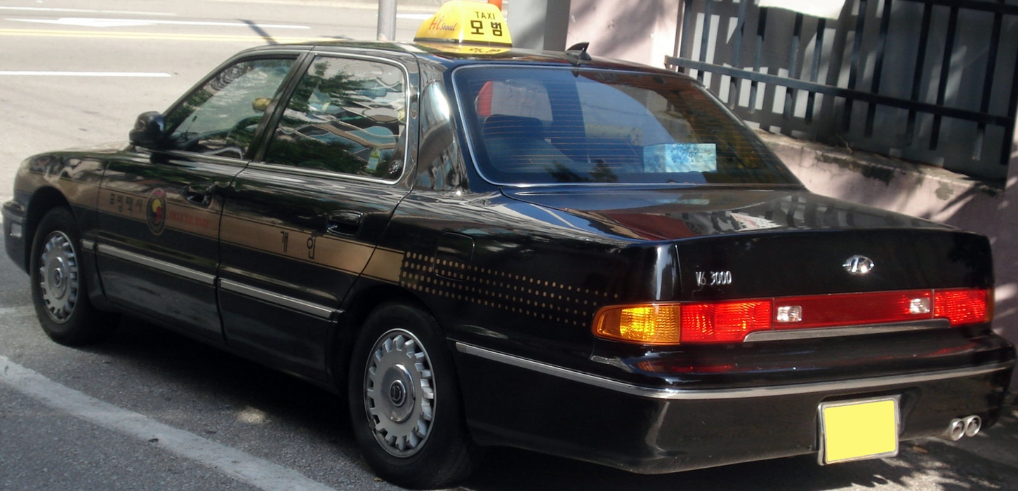 Hyundai Dynasty